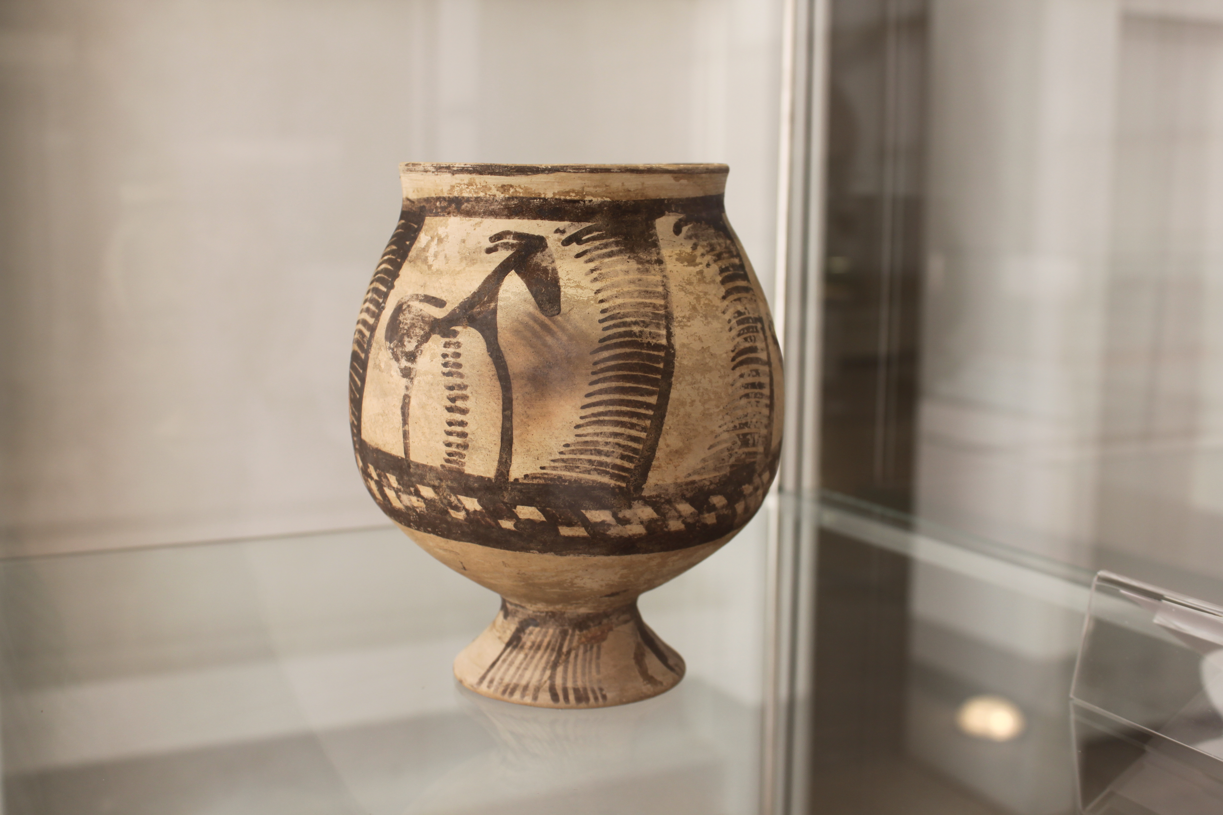 Pottery Jar - 3750-3350 BC - Tepe Hissar near Damghan (Semnan Province) - National museum of Tehran - inventory number 395